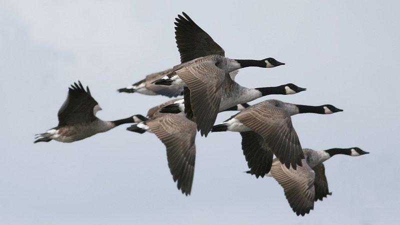 Canada Goose (Branta canadensis)